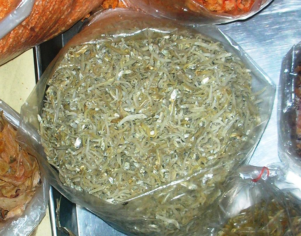 Thai dried fish ปลาข้าวสาร